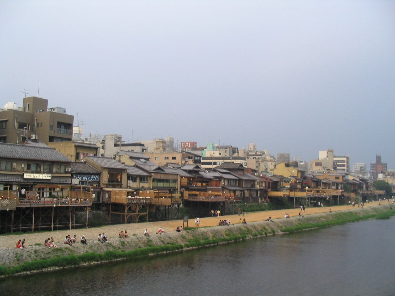 Kamo river and noryo yuka of Pontocho